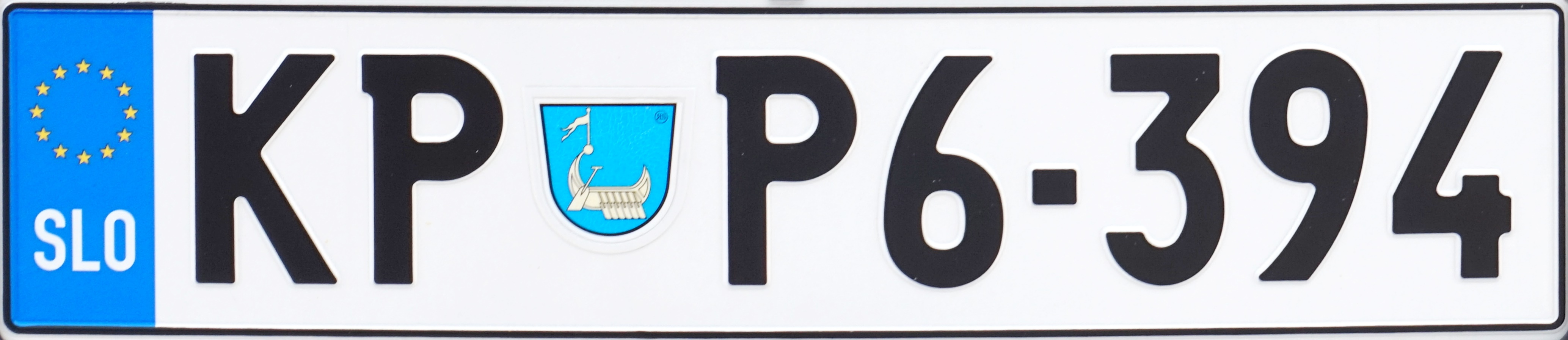 Slovenian license plate with the sticker of Ilirska Bistrica administrative unit. 2004-2008 series plate.